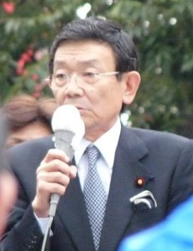 Kaoru Yosano , japanese politician